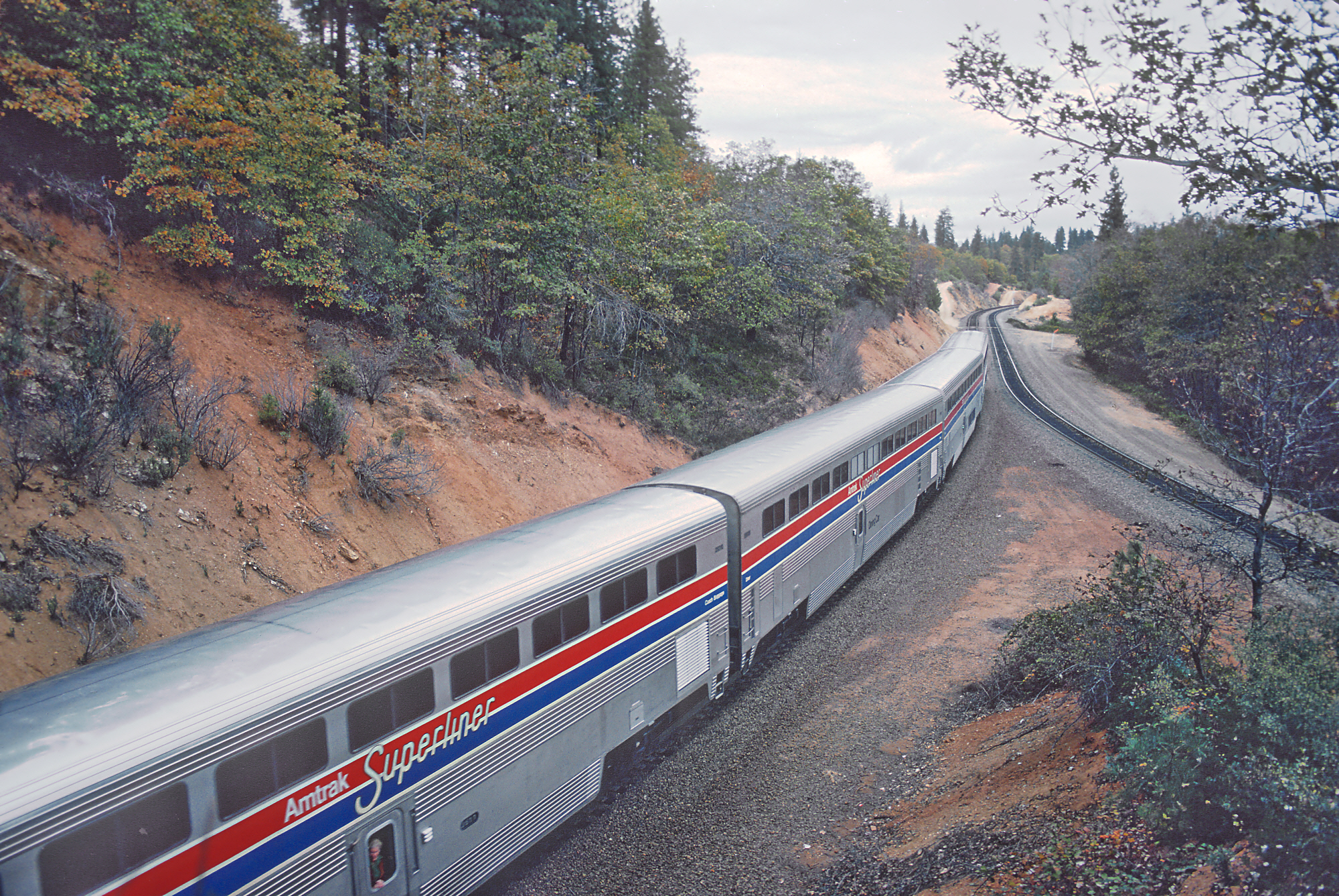 Superliner cars on the San Francisco Zephyr at Cape Horn, Placer County, California in November 1980